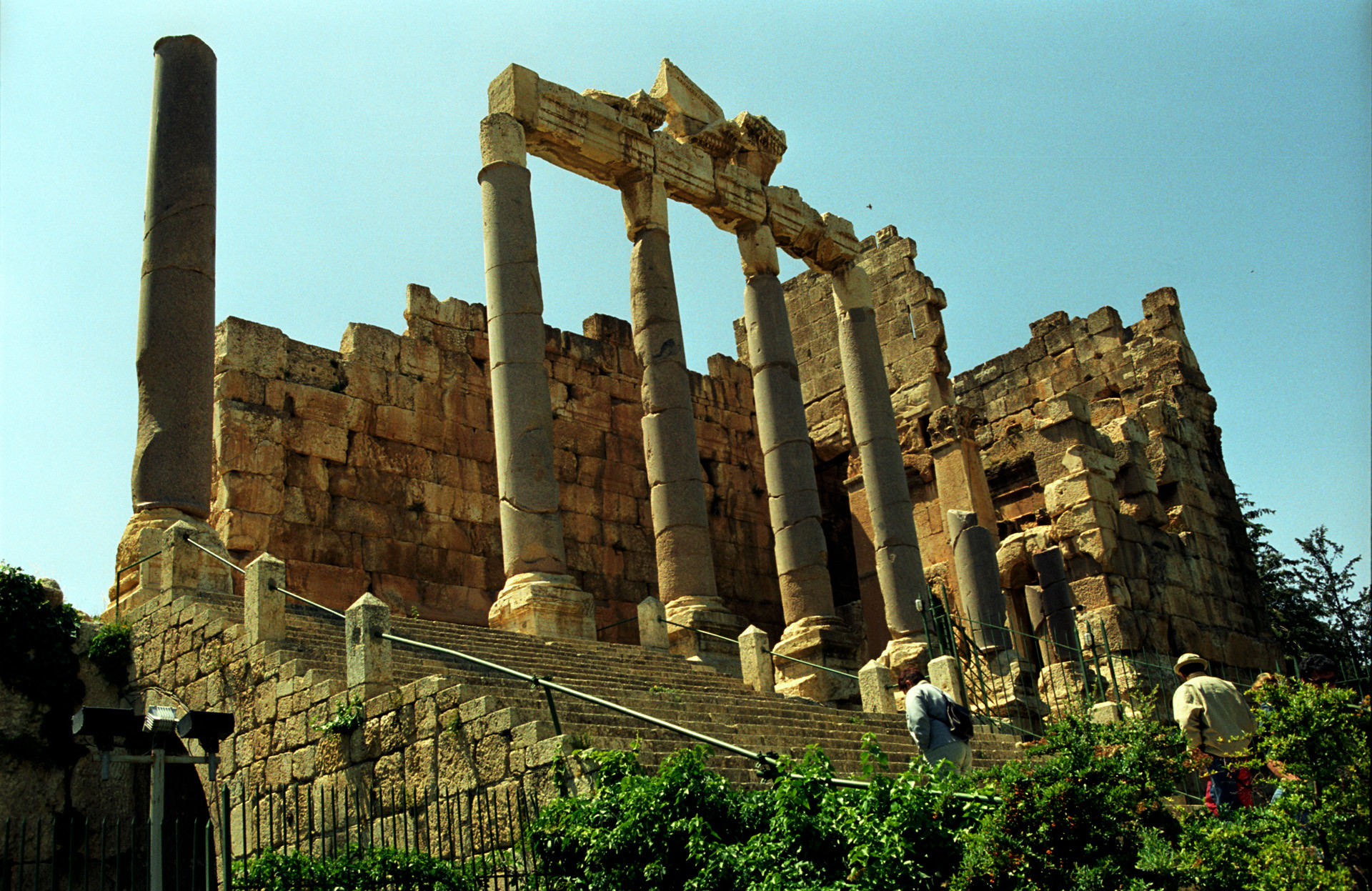 Baalbek, Temple of Jupiter, Propylaea